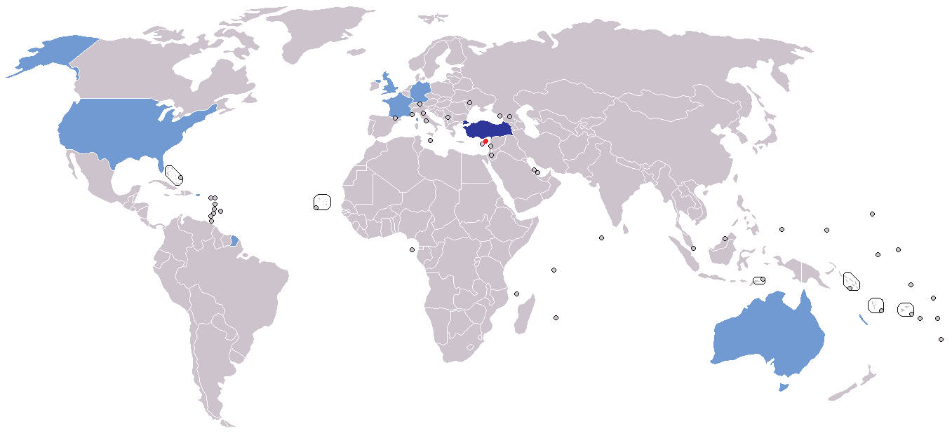 Map of diplomatic missions in Northern Cyprus (TRNC) TRNC States with embassy in TRNC States with representative office in TRNC States with non-resident embassy to TRNC (none)